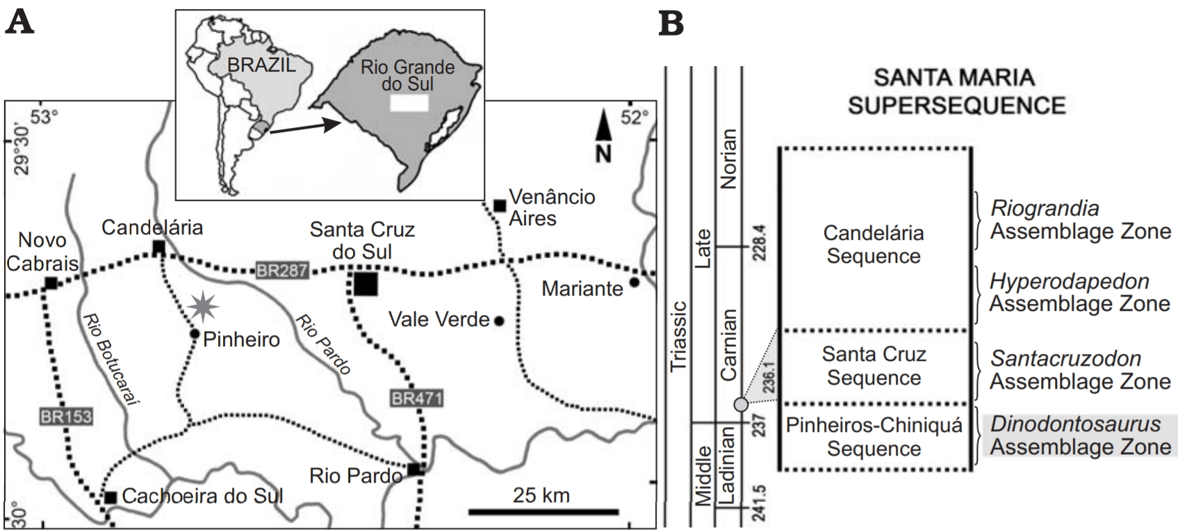 Stratigraphy of the Candelária Sequence or Formation of the Paraná Basin, Brazil